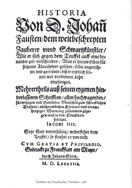 A facsimile of the Historia von D. Johann Fausten, an early version of the Faust myth. This image is solely on black and white, which is probably closee to the original than the twp-colored version.